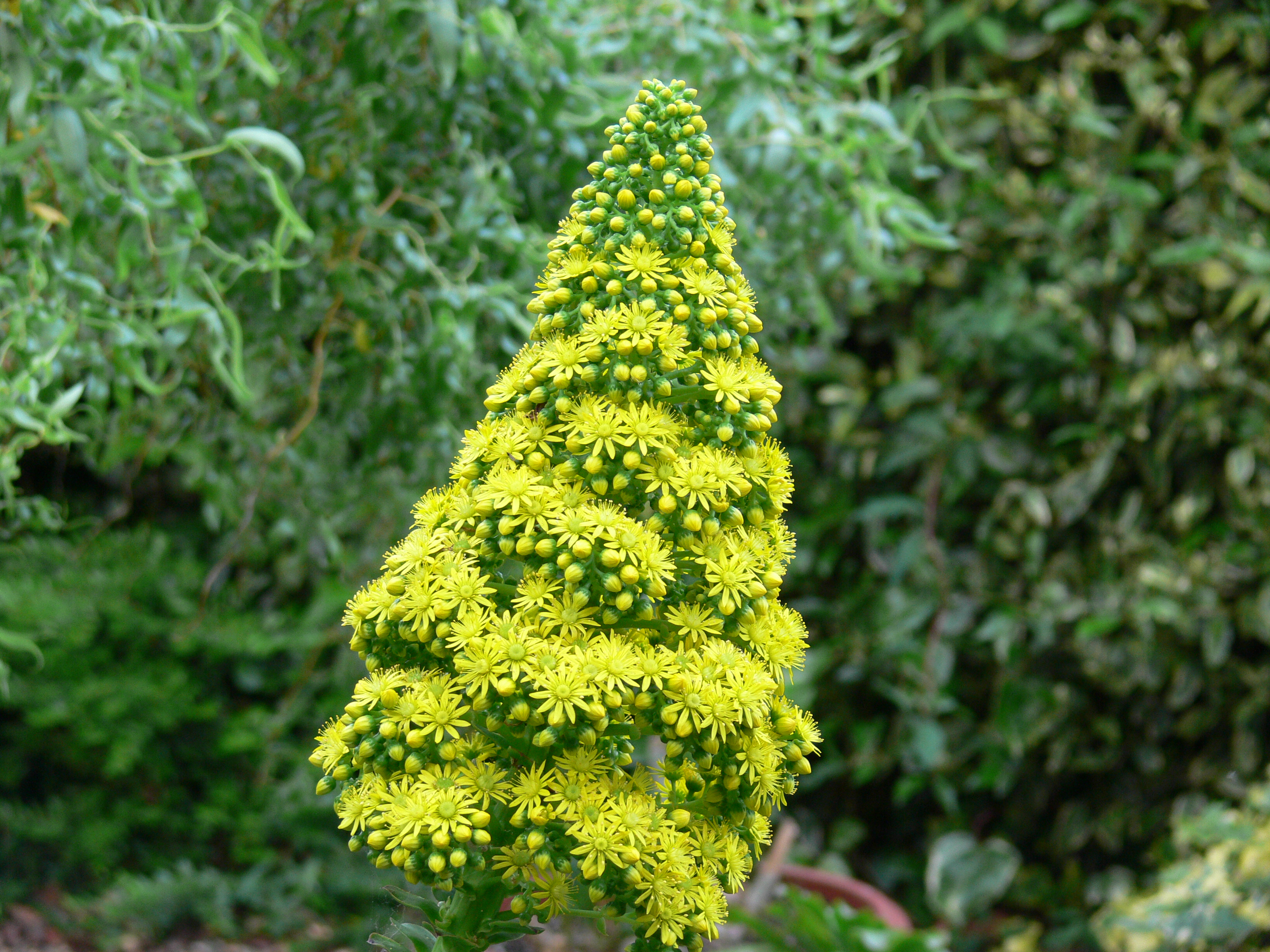 Aeonium Undulatum flower head